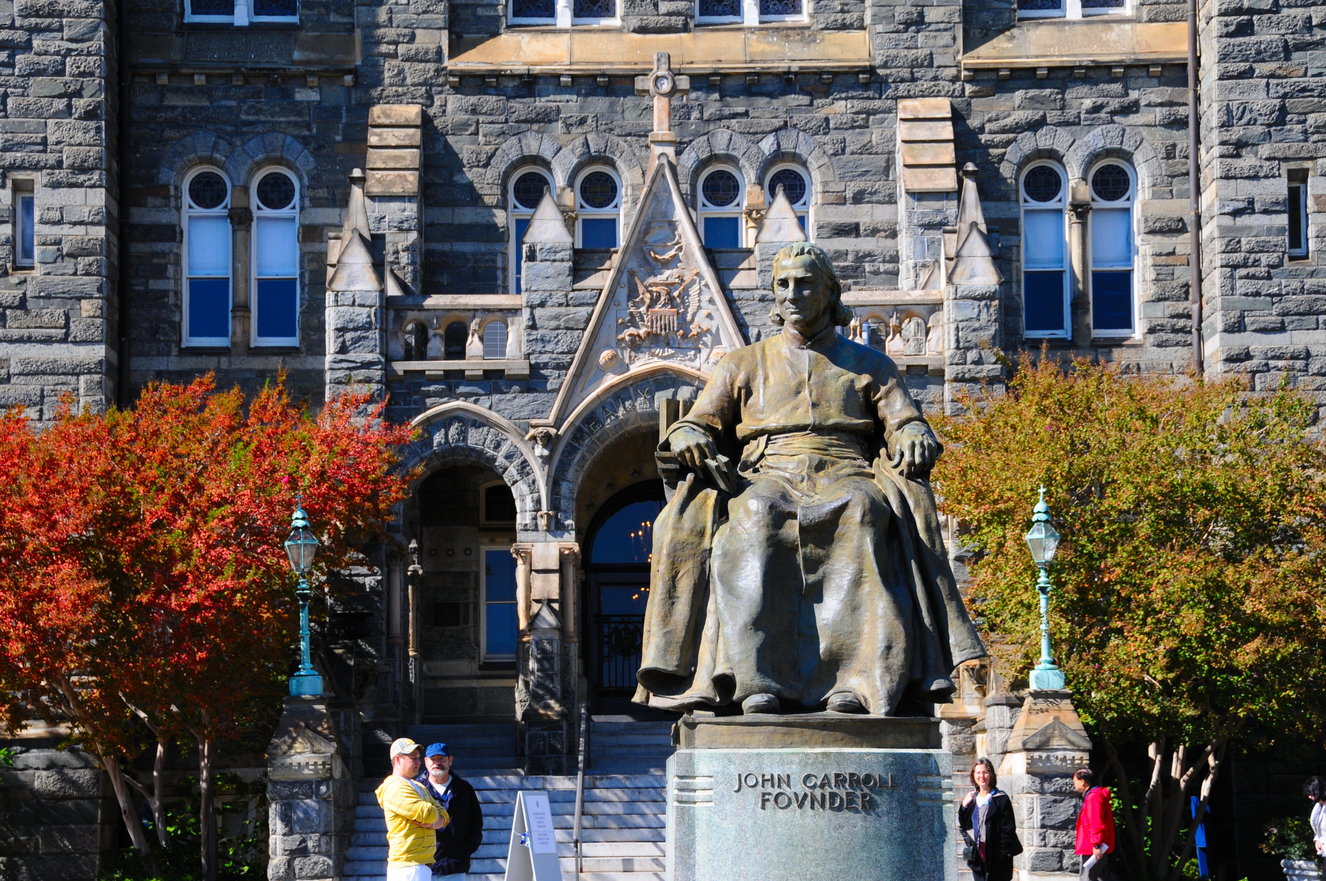 John Carroll, (January 8, 1735 – December 3, 1815) was the first Roman Catholic bishop and archbishop in the United States — serving as the ordinary of the Archdiocese of Baltimore. He is also known as the founder of Georgetown University, the oldest Catholic university in the United States, and the Georgetown Preparatory School, the oldest Catholic day and boarding school in the United States.